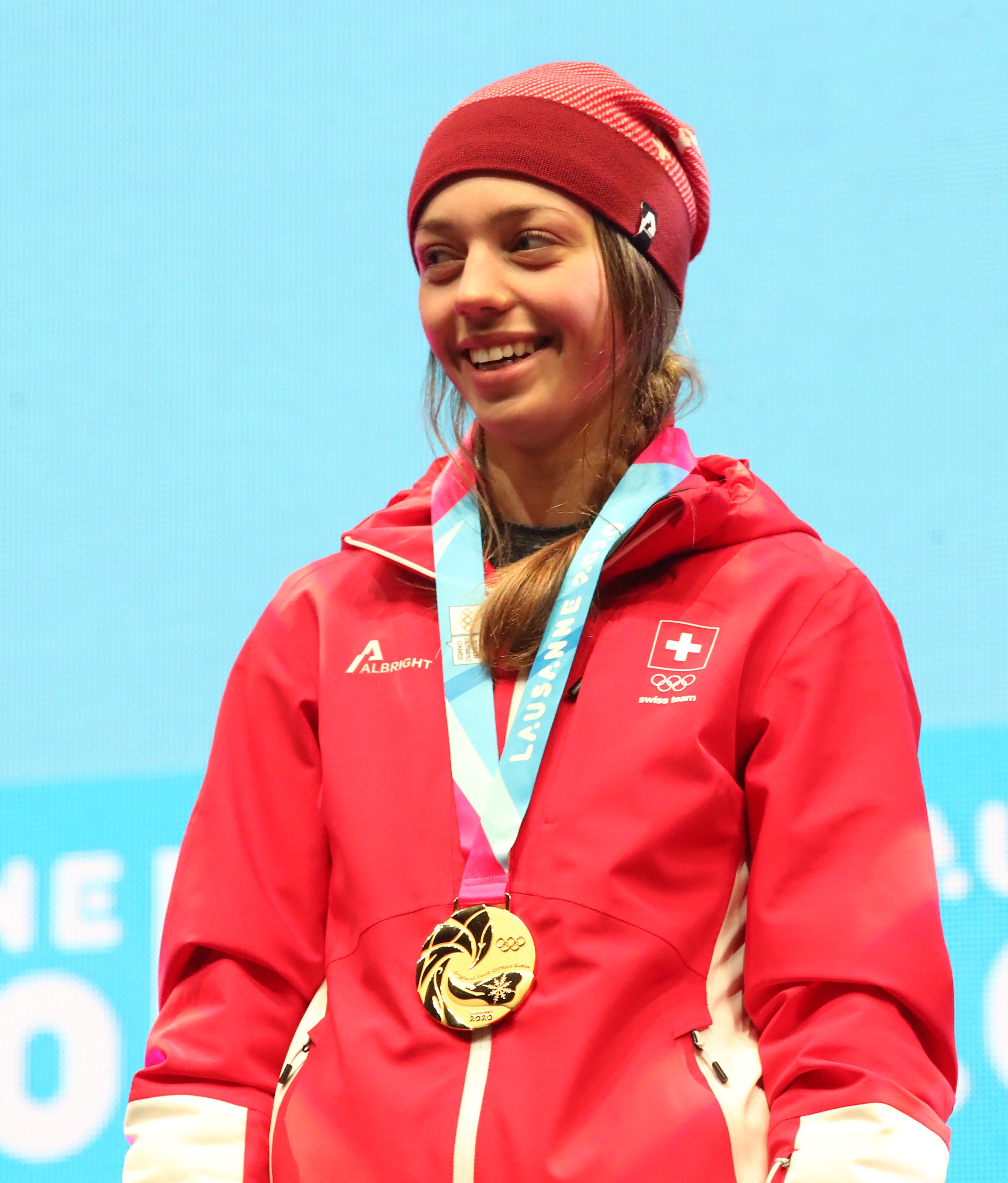 Medal Ceremony Day 3, 2020 Winter Youth Olympics in Lausanne